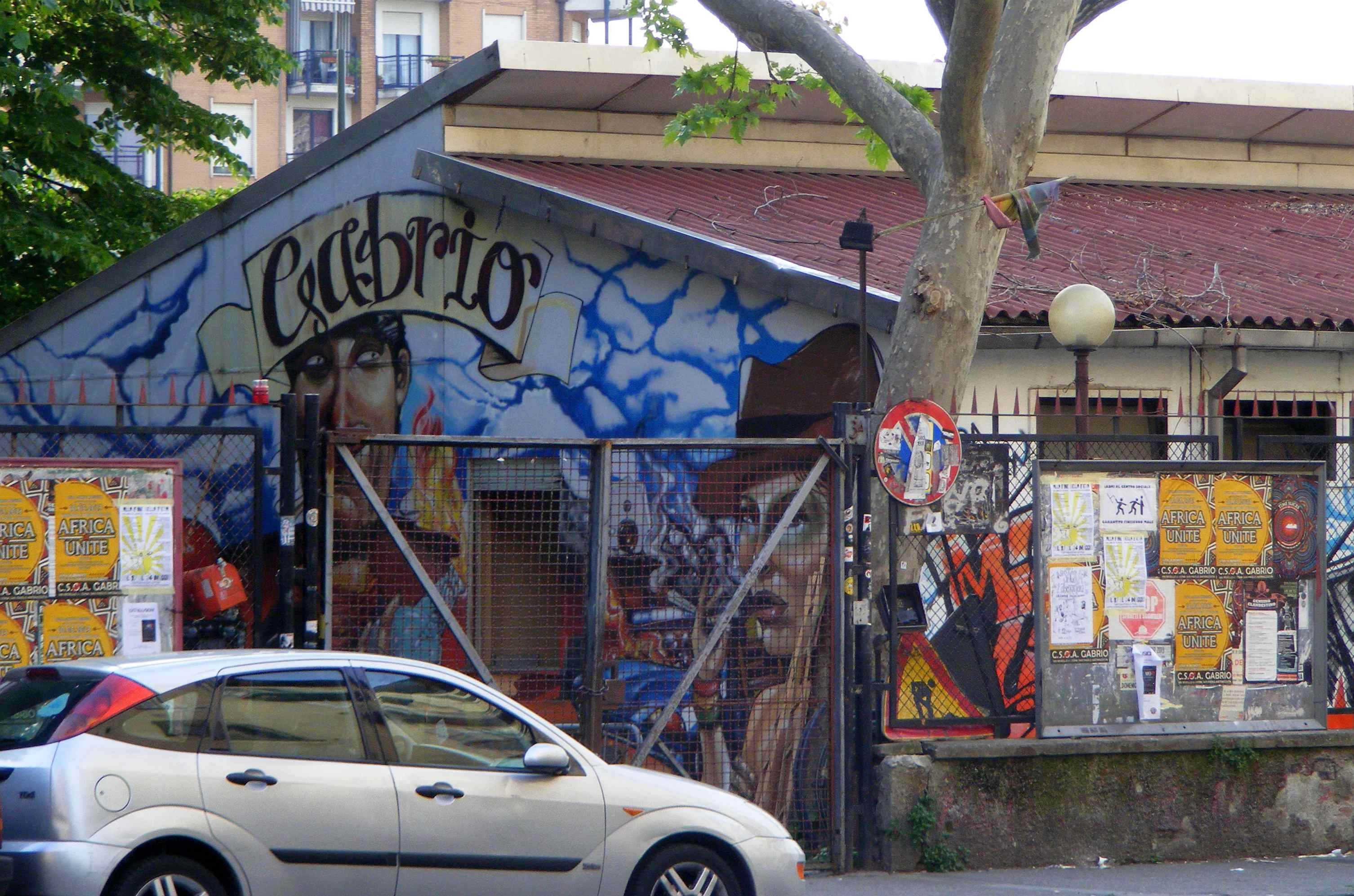 Cenisia (Turin, Italy): Gabrio community centre